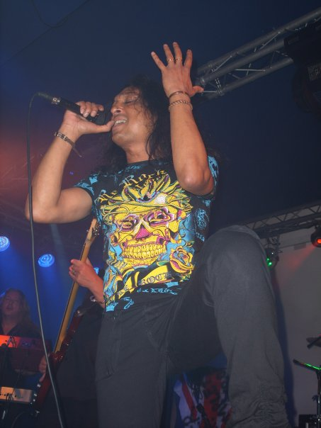 Chitral Somapala